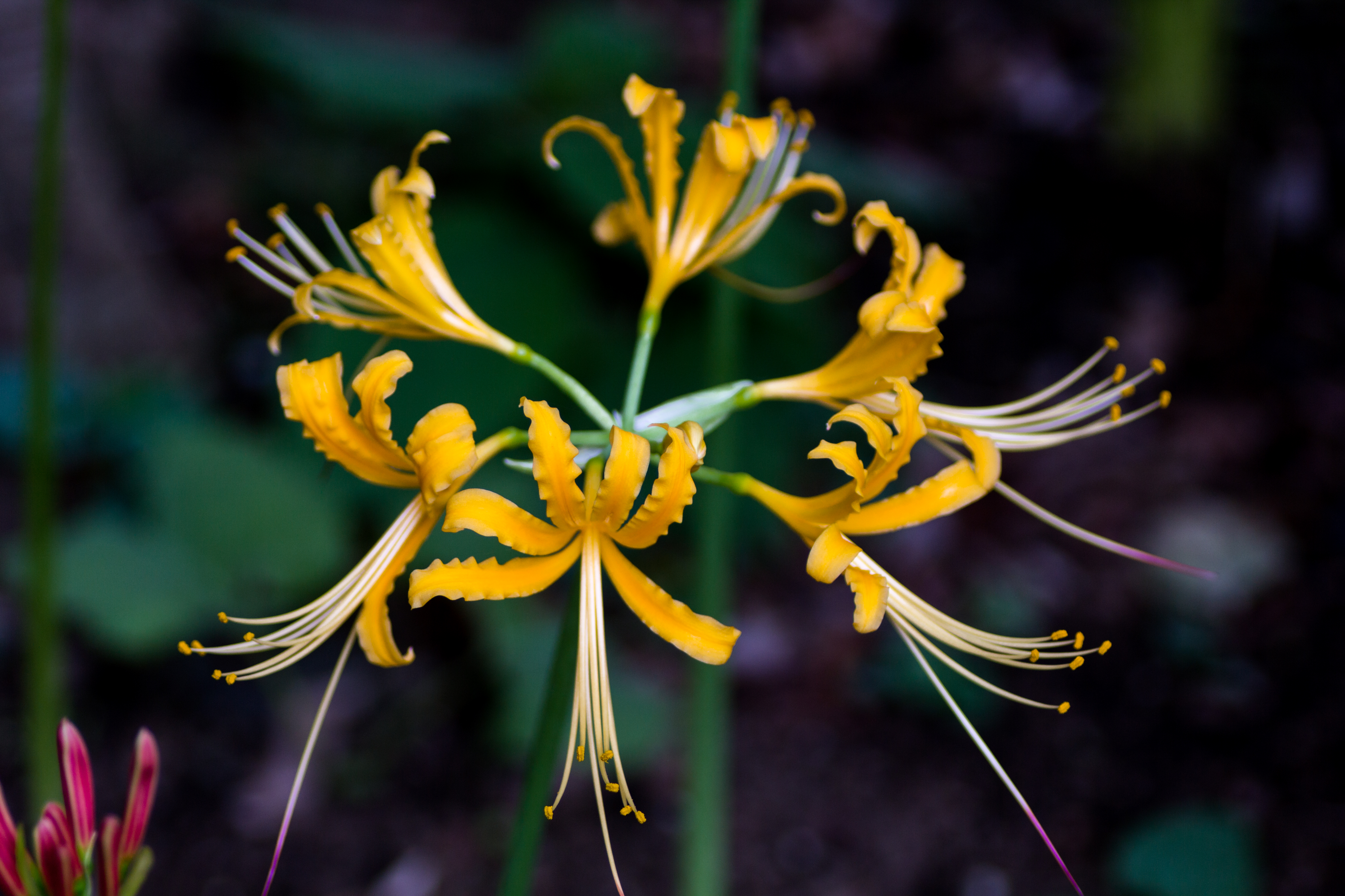 EOS 60D+TAMRON SP AF90mm F/2.8 Di MACRO 1:1 If you have requests or comments, please describe these in photo comment space.